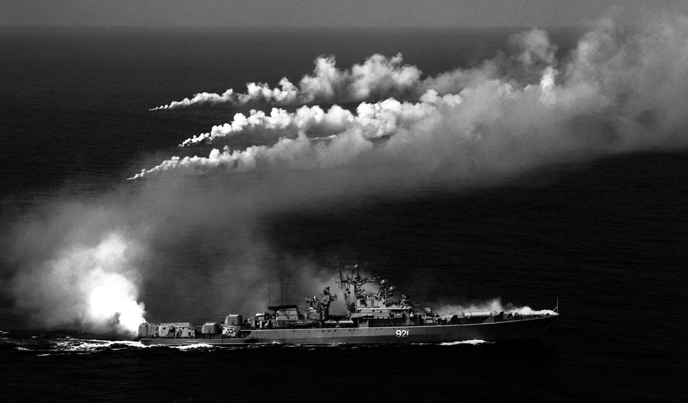 A starboard beam view of the Krivak I class guided missile frigate ZHARKY laying down a smoke screen, with smoke canisters in the background.